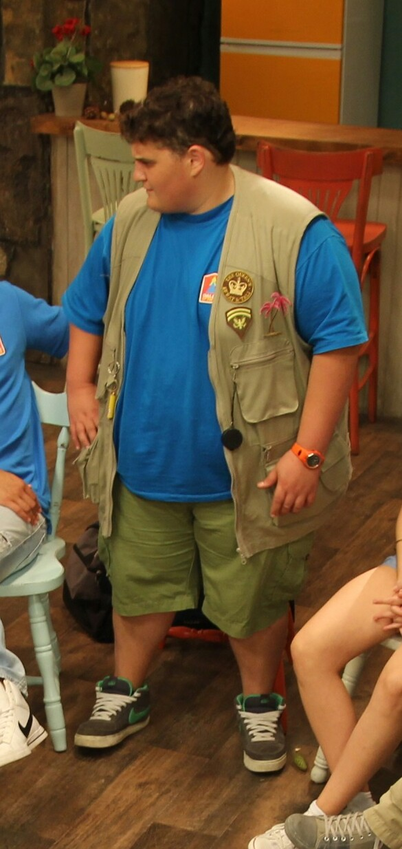 Neveh Tzur - cropped version of File:Galis 4.jpg